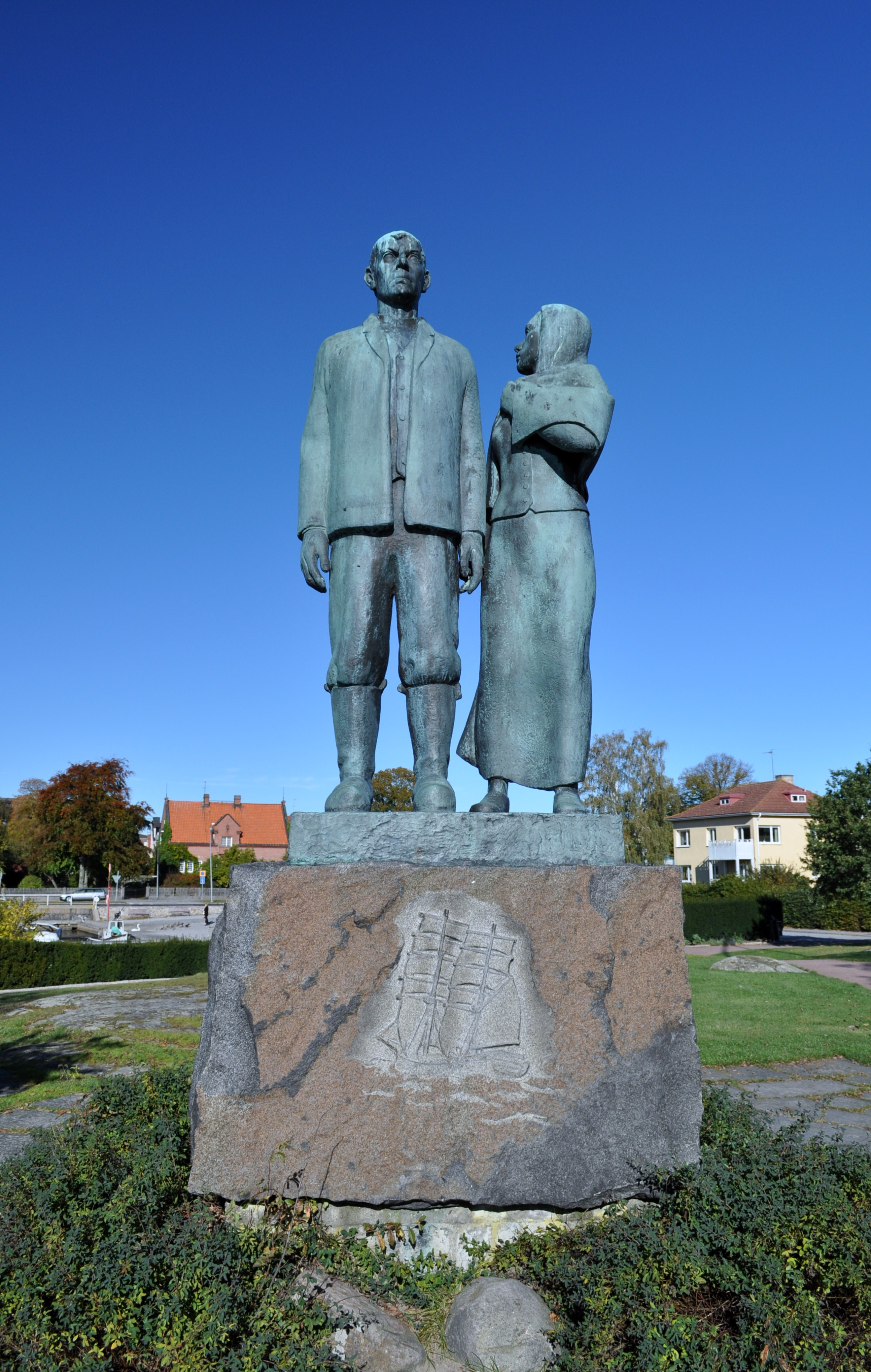 "The emigrant monument, sculpture by Axel Olsson in Karlshamn. In the 19th and early 20th centuries emigrate about 1.3 million Swedes for the United States of America. A dream be a reality.